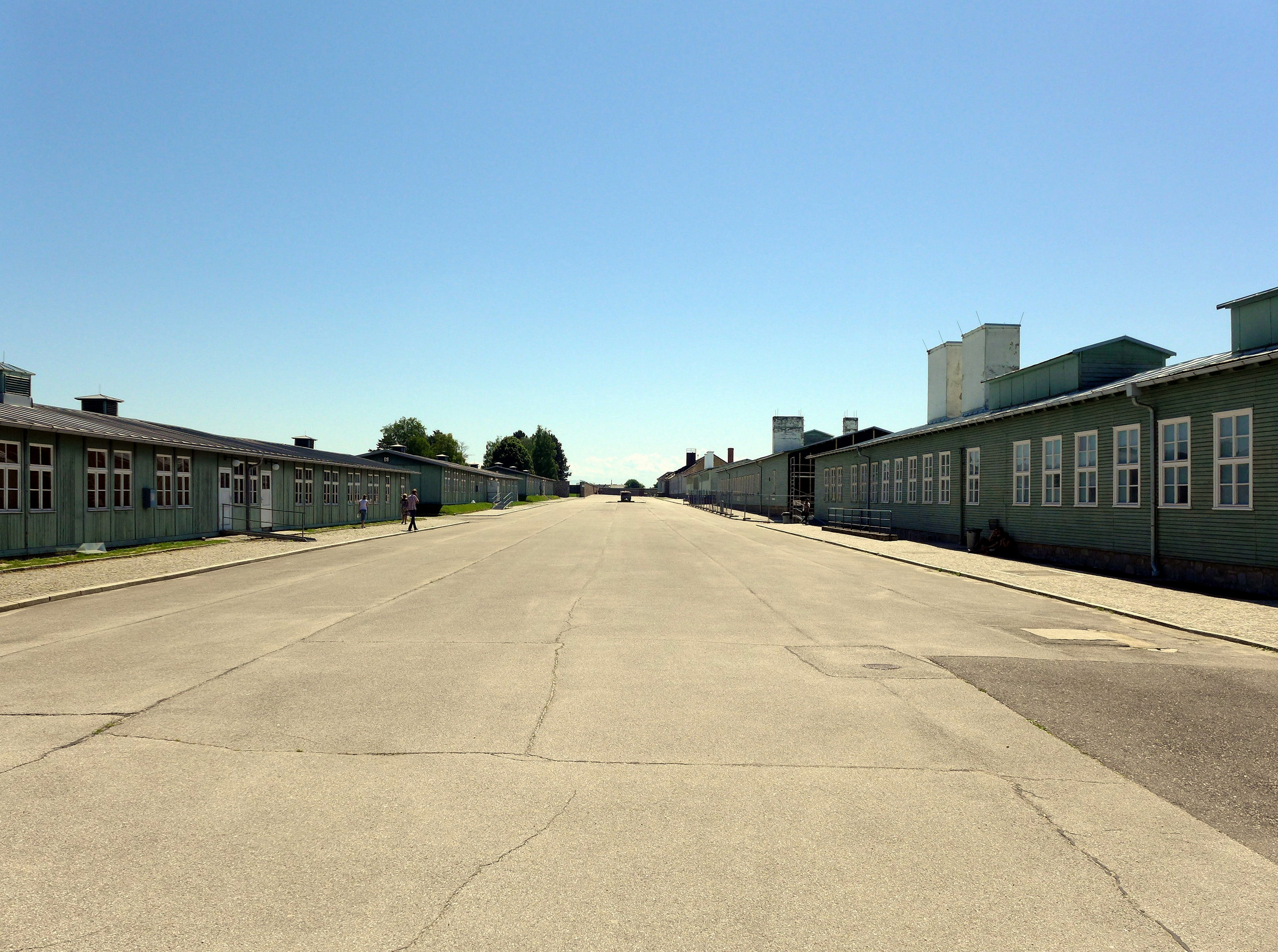 Main concentration camp street and camp baracks, KZ Mauthausen memorial, Mauthausen, Upper Austria, Austria